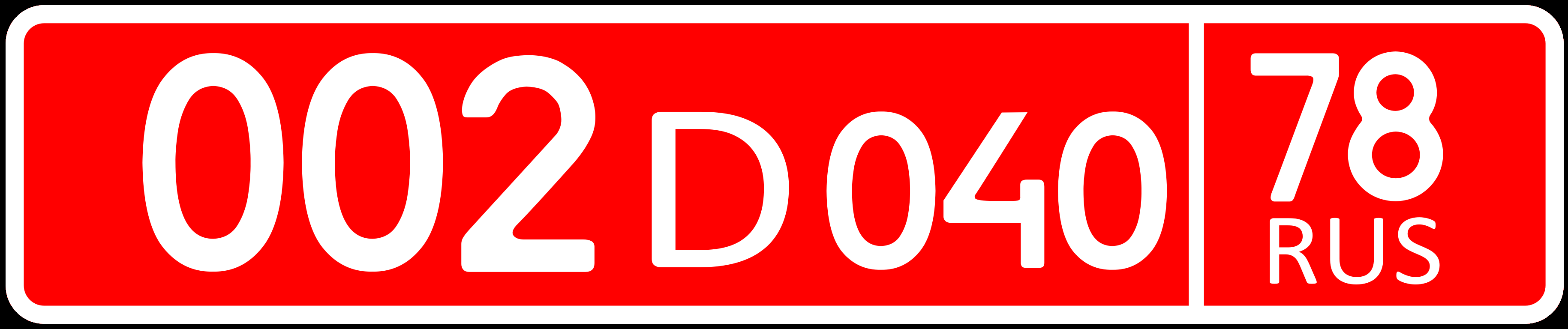 Russian license plate for diplomatic vehicles.